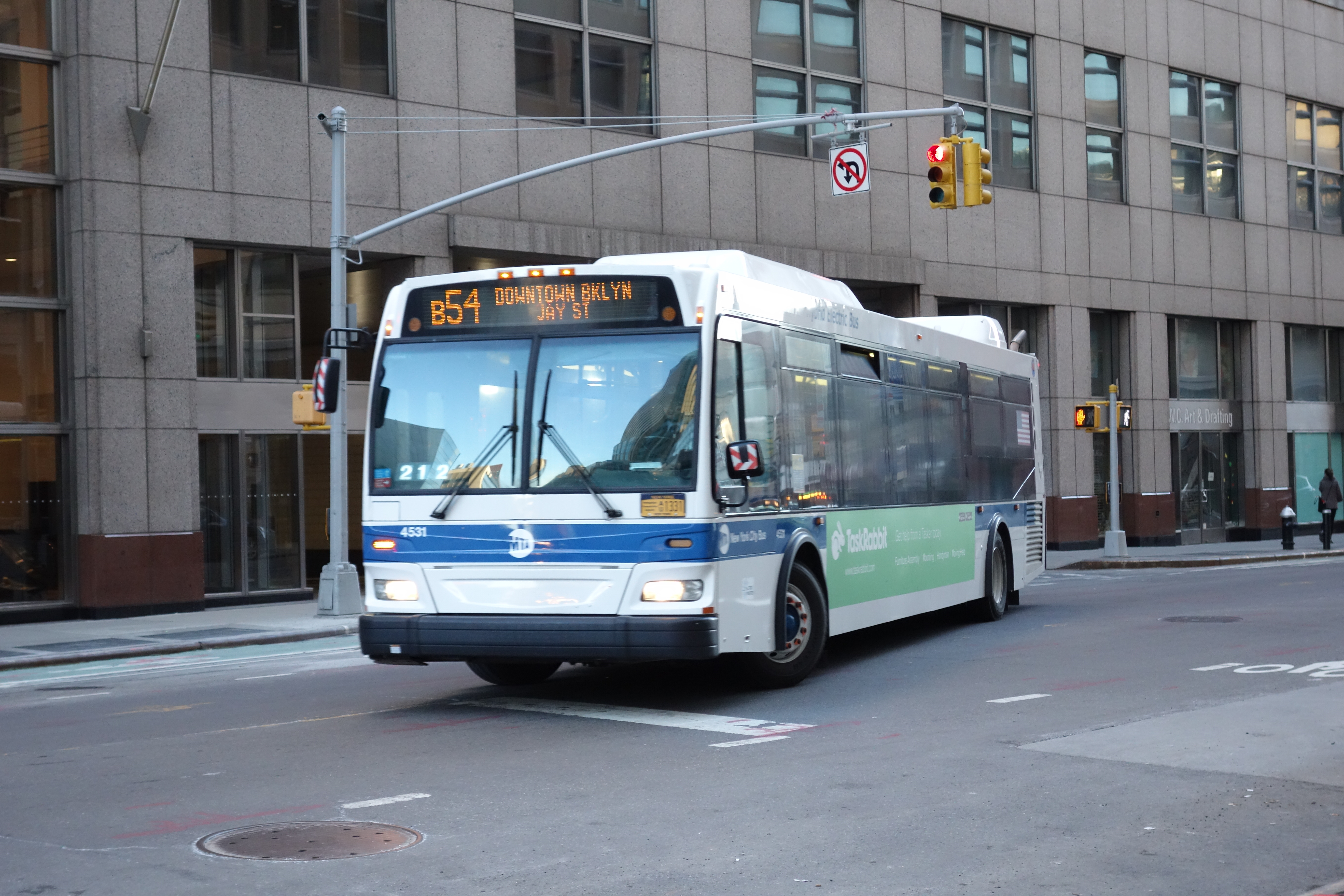 A terminating B54 bus turning onto Jay Street from the tunnel under One MetroTech Center in Downtown Brooklyn.